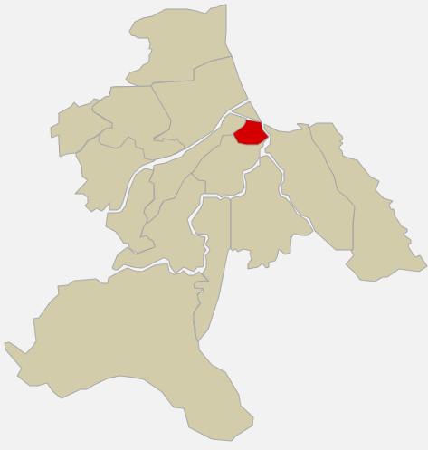 Konakano town in 1929.